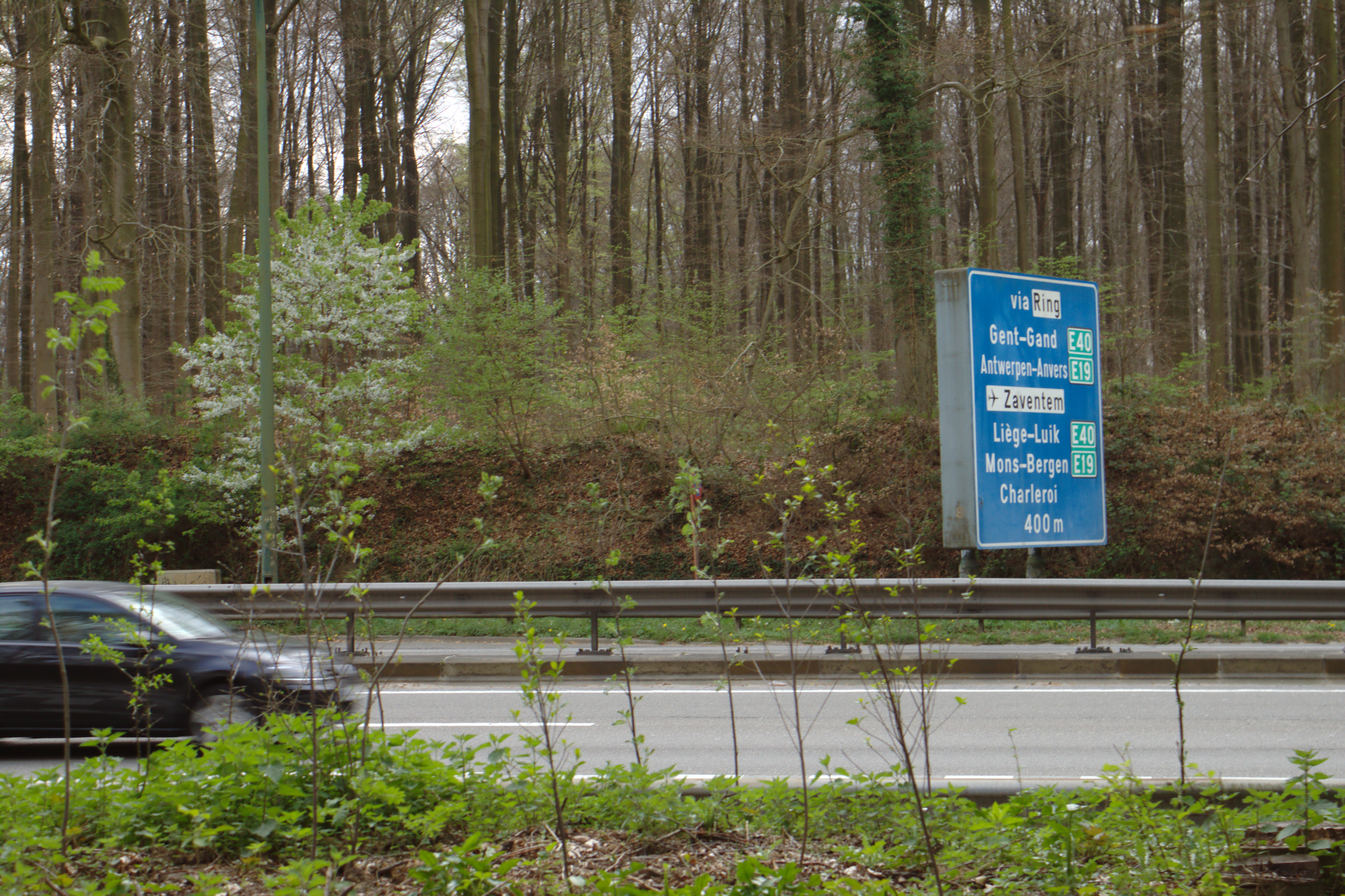 A4 highway near Brussels, Belgium